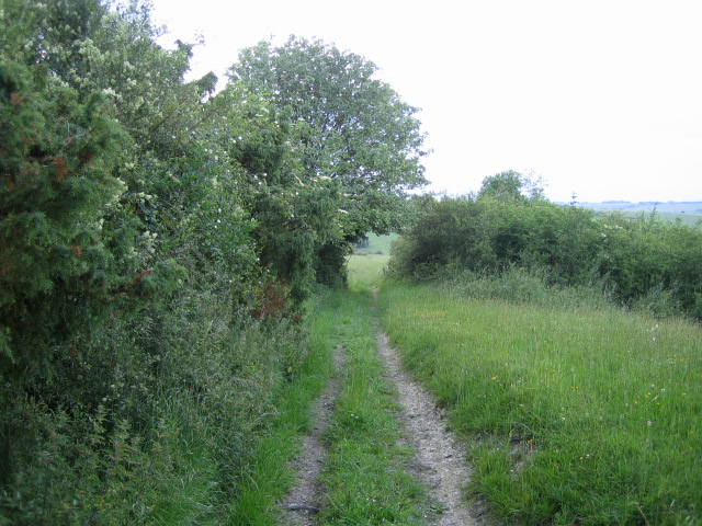 Restricted byway, Stockton Down near Sherrington This is the restricted byway, looking north-west, that comes down from Stockton Down behind the camera, to meet an unclassified road in the valley at Park Bottom. Here the byway runs parallel to a private road that also descends from Stockton Down, which is off camera about 25m to the left.